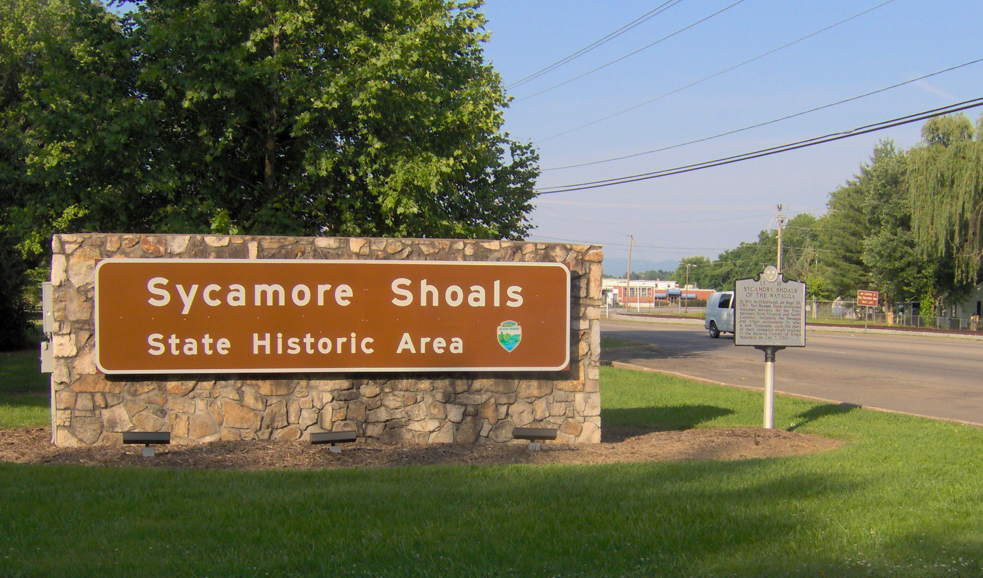 The entrance to Sycamore Shoals State Historic Park in Elizabethton, Tennessee, USA. A Tennessee Historical Commission marker on the right (one of five such markers at the park entrance) explains the significance of the shoals.